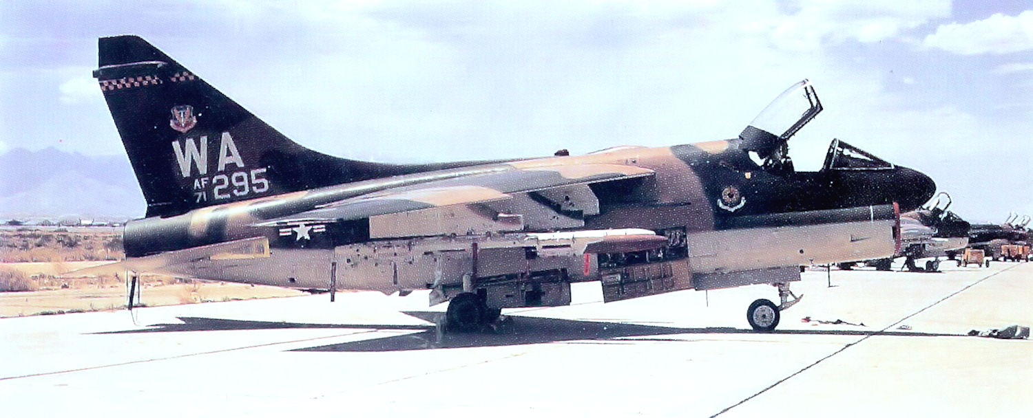 66th Fighter Weapons Squadron A-7D 71-0295 1972: Aircraft delivered to 57th Fighter Weapons Wing/65th FWS, Nellis AFB, NV (c/n D-206) Transferred to 23d Tactical Fighter Wing/75th TFS, England AFB, LA, 1979 Transferred to 124th Tactical Fighter Squadron, AZ Air National Guard, 1982 Transferred to AMARC as AE0207 Sep 15, 1992. Sold for reclamation, April 1997. Nose section currently preserved at Ellington ANGB, TX.